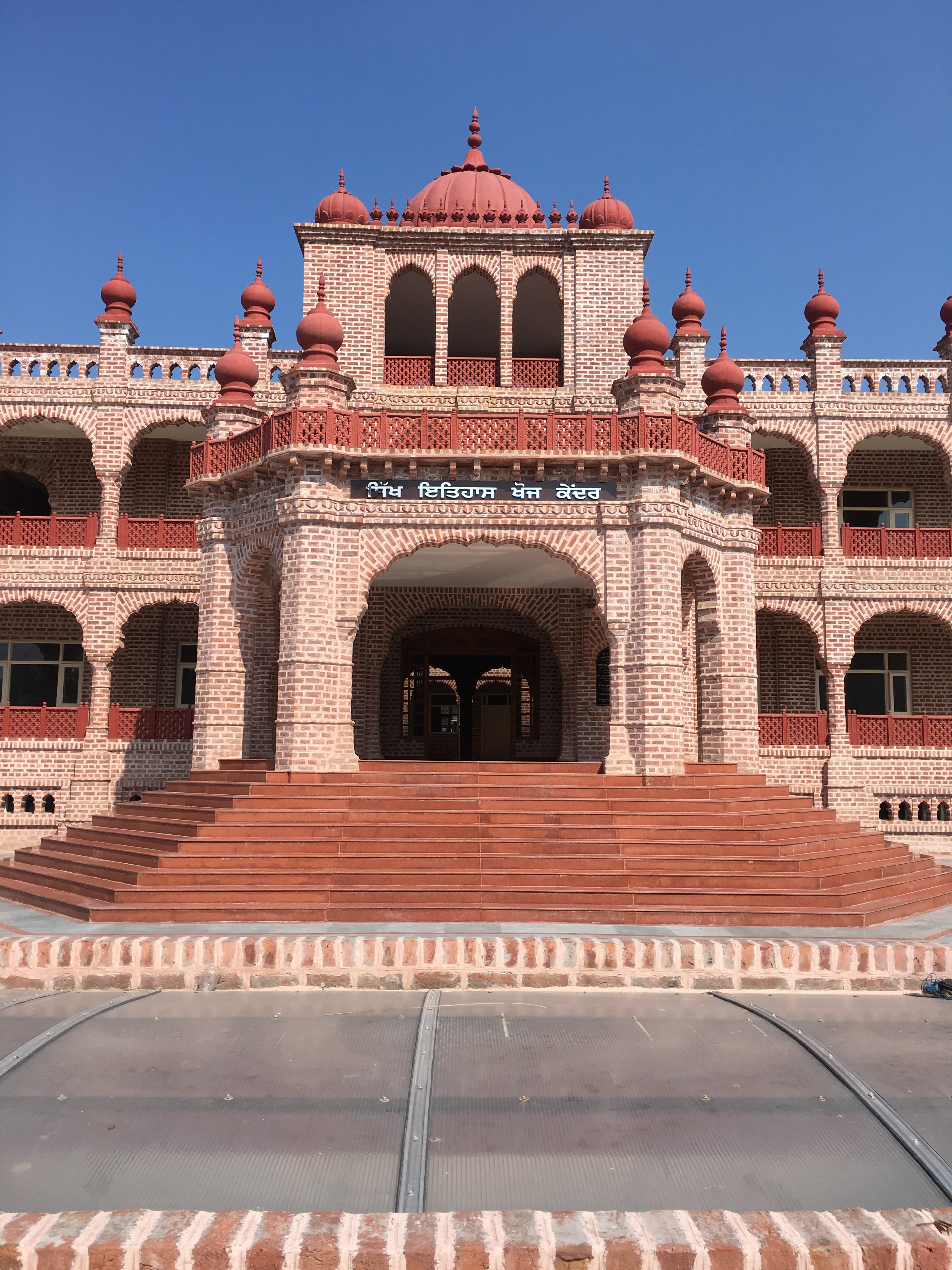 It is the Closer View of Sikh History Research Centre. Name of the Department is written in Punjabi (ਸਿੱਖ ਇਤਿਹਾਸ ਖੋਜ ਕੇਂਦਰ) on the Front side, Right side its in English (Sikh History Research Centre) and left side in Persian.